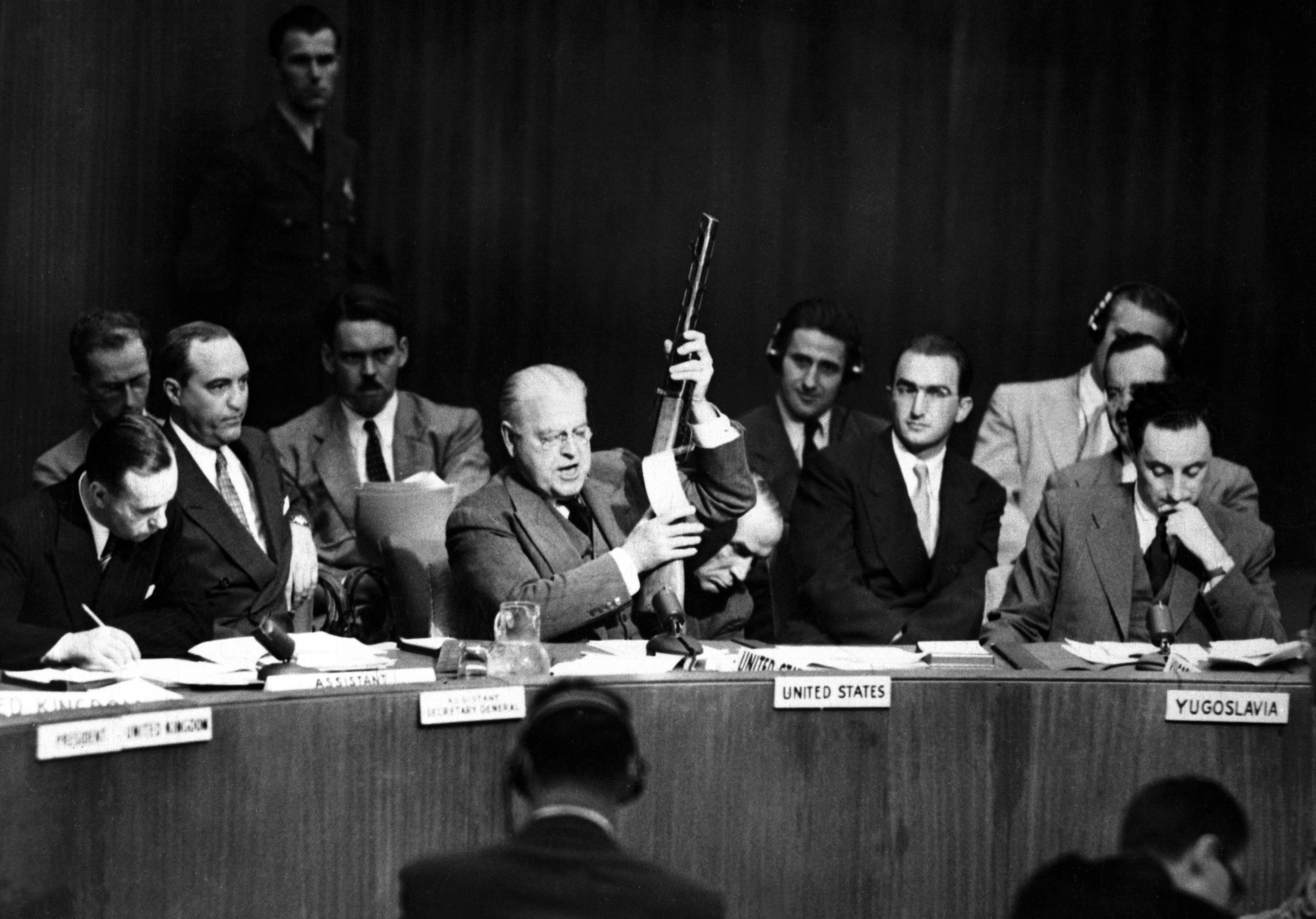 At U.N. Security Council, Warren Austin, U.S. delegate, holds Russian-made submachine gun dated 1950, captured by American troops in July 1950. He charges that Russia is delivering arms to North Koreans. ID #HD-SN-99-03037